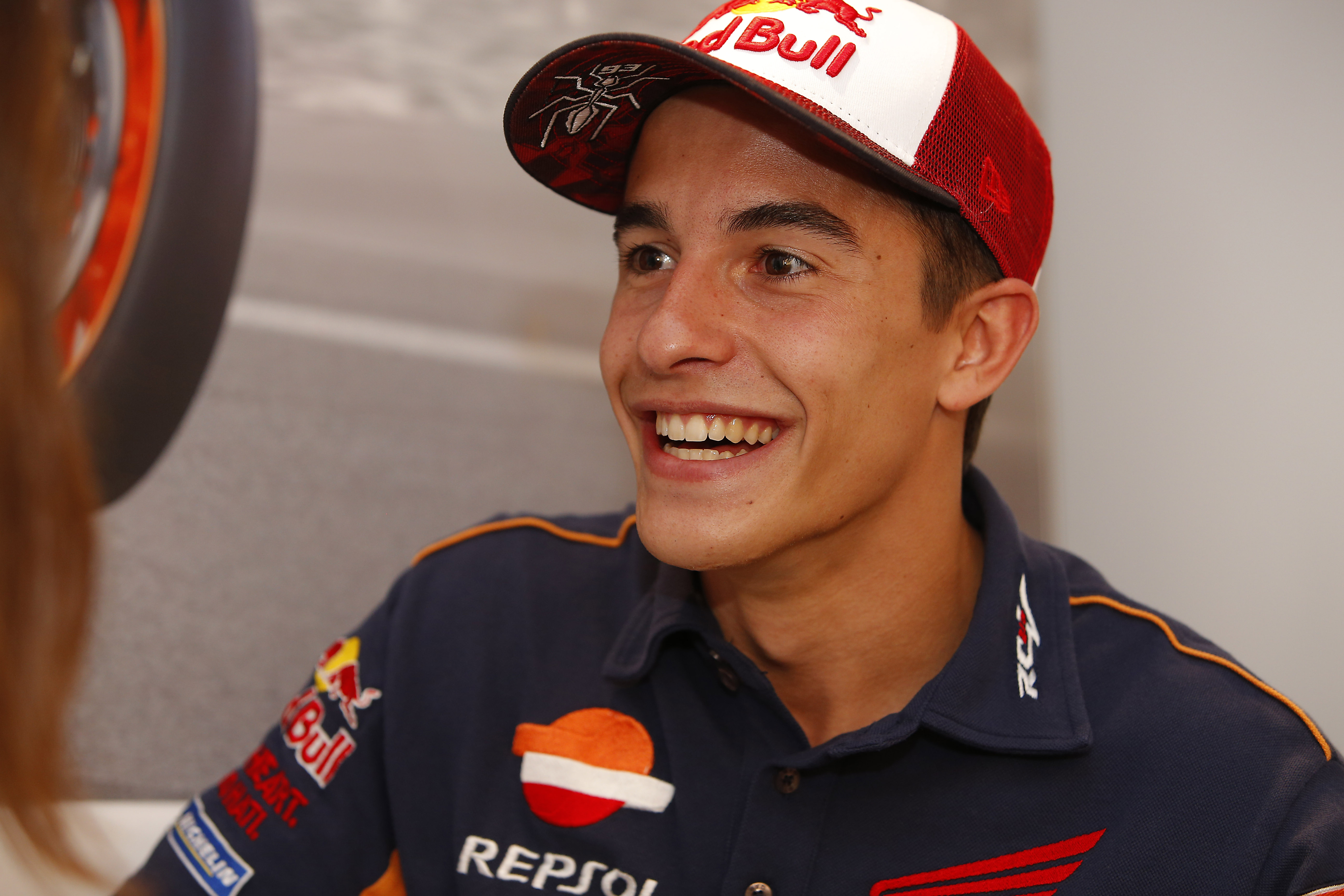 Marc Marquez in Aragon 2016